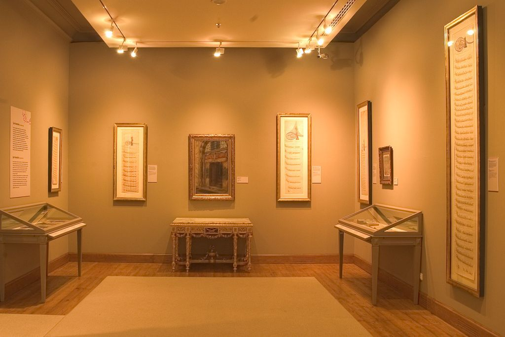 Collection of Ottoman Calligraphy in Sakıp Sabancı Museum